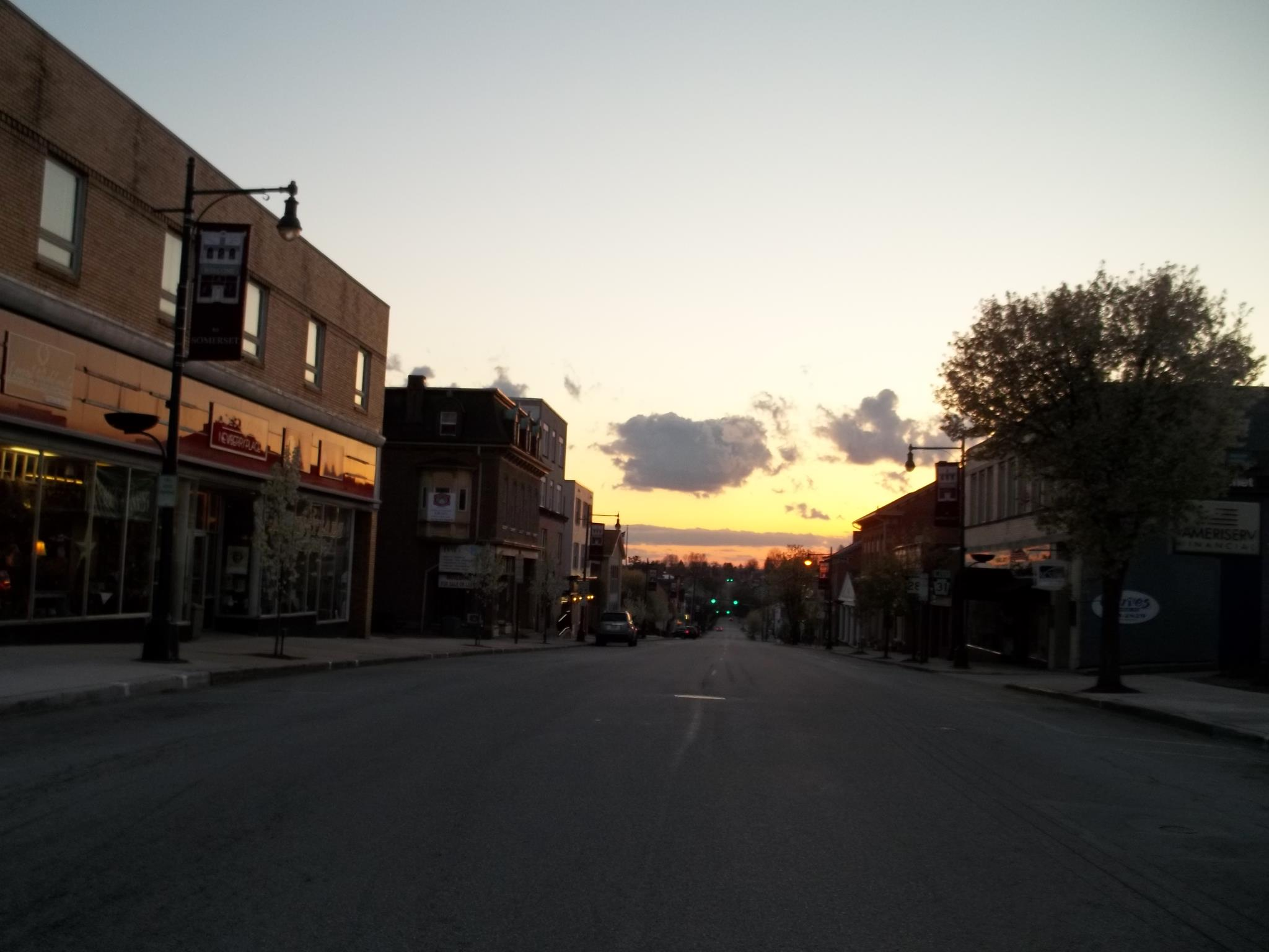 Uptown Somerset Historic District, Roughly bounded by North Kimbery, Main, Columbia, and West Catherine Streets Somerset